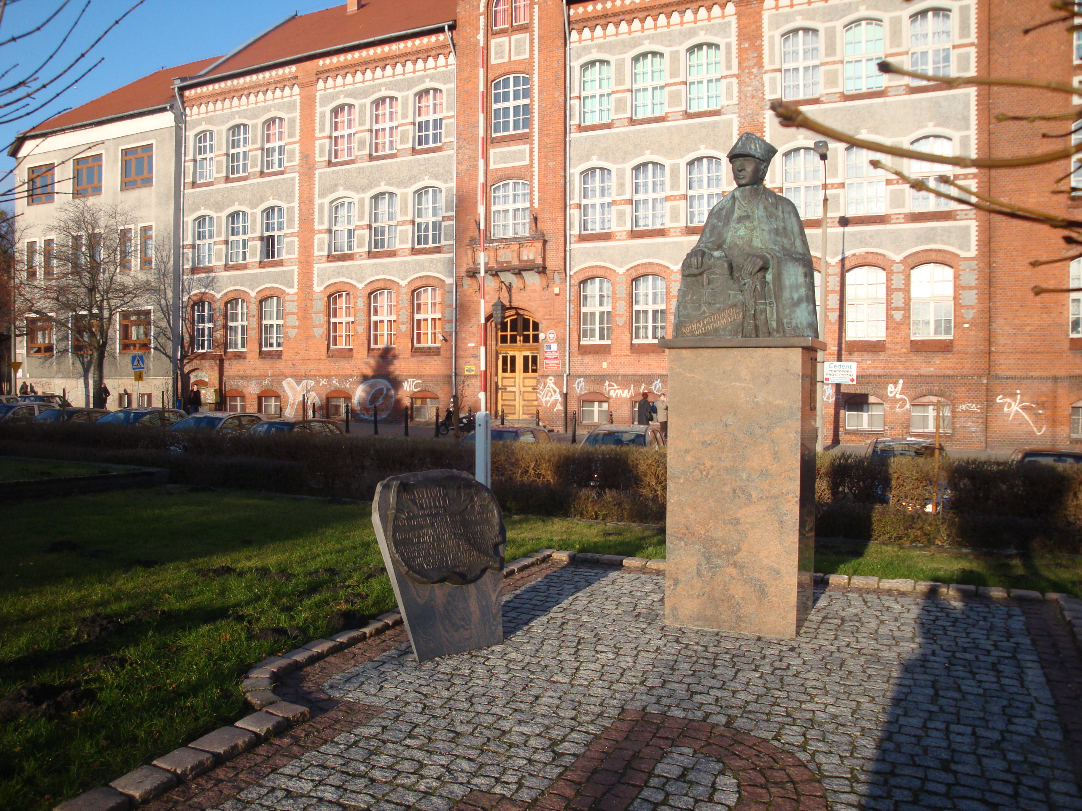 Monument to Witold Pilecki in Grudziądz, Poland